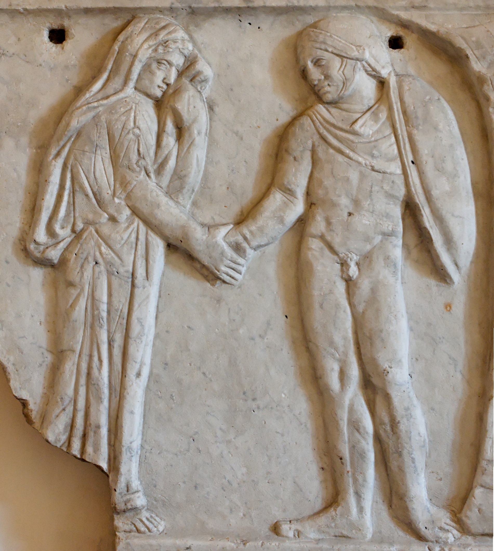 Jason and Medea joining their right hands (dextrarum junctio), a gesture symbolizing marriage. Luni marble, Roman sarcophagus from the late 2nd century CE.